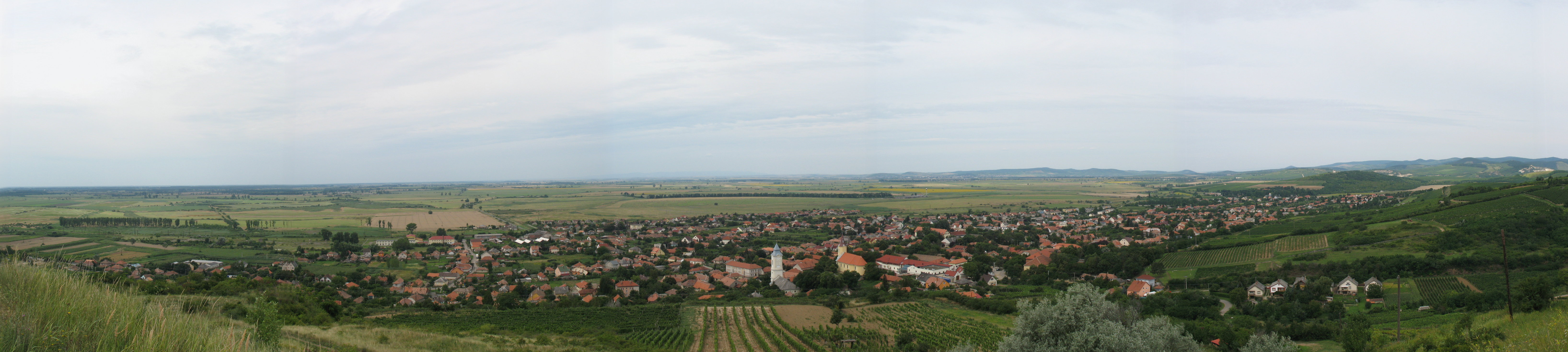 panorama of Tarcal, Hungary